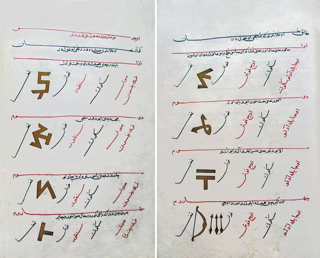 Tamgas of Oghuz Turks by Ahmed Bican Yazıcıoğlu